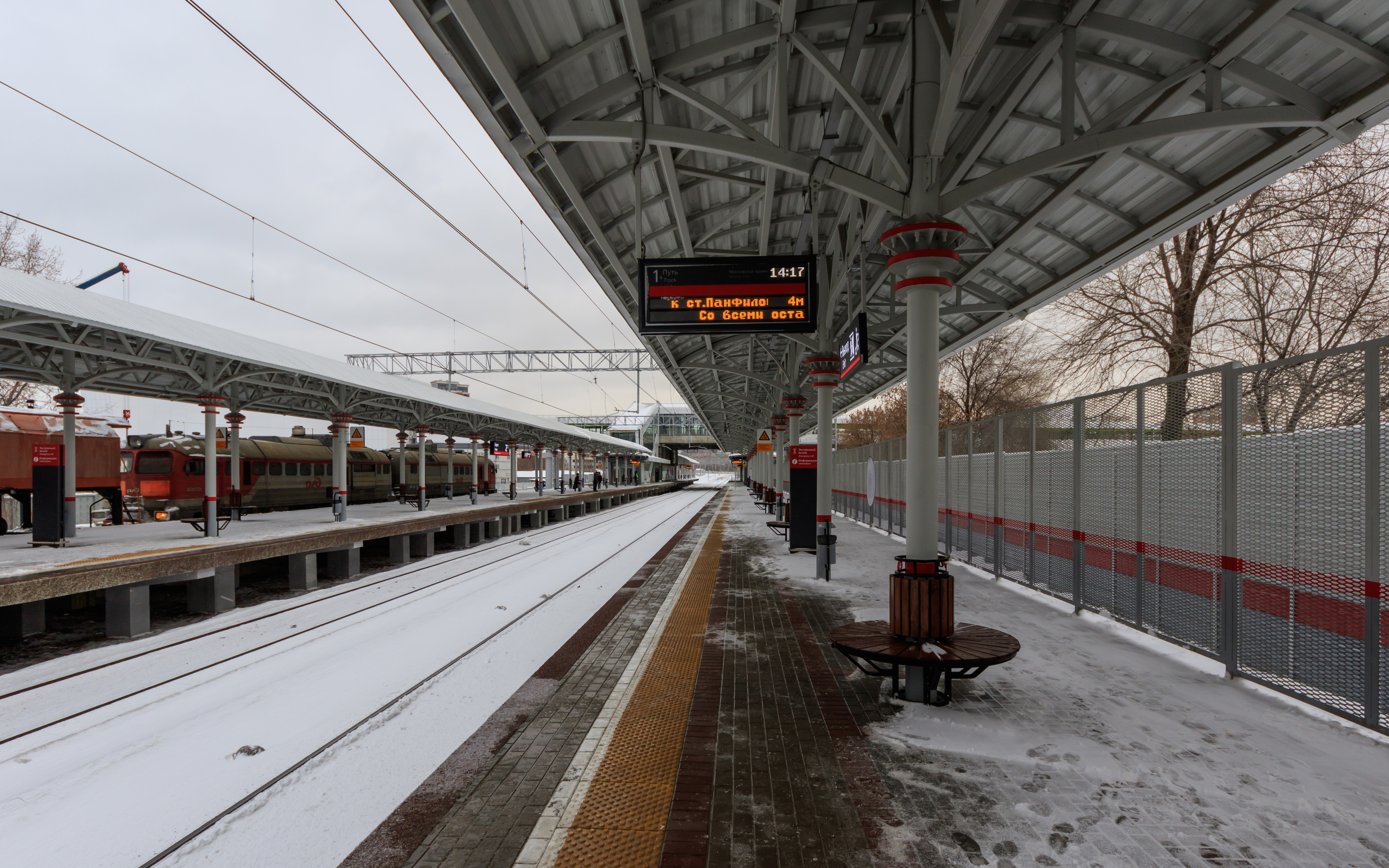 Zorge MCC station in Moscow, Russia